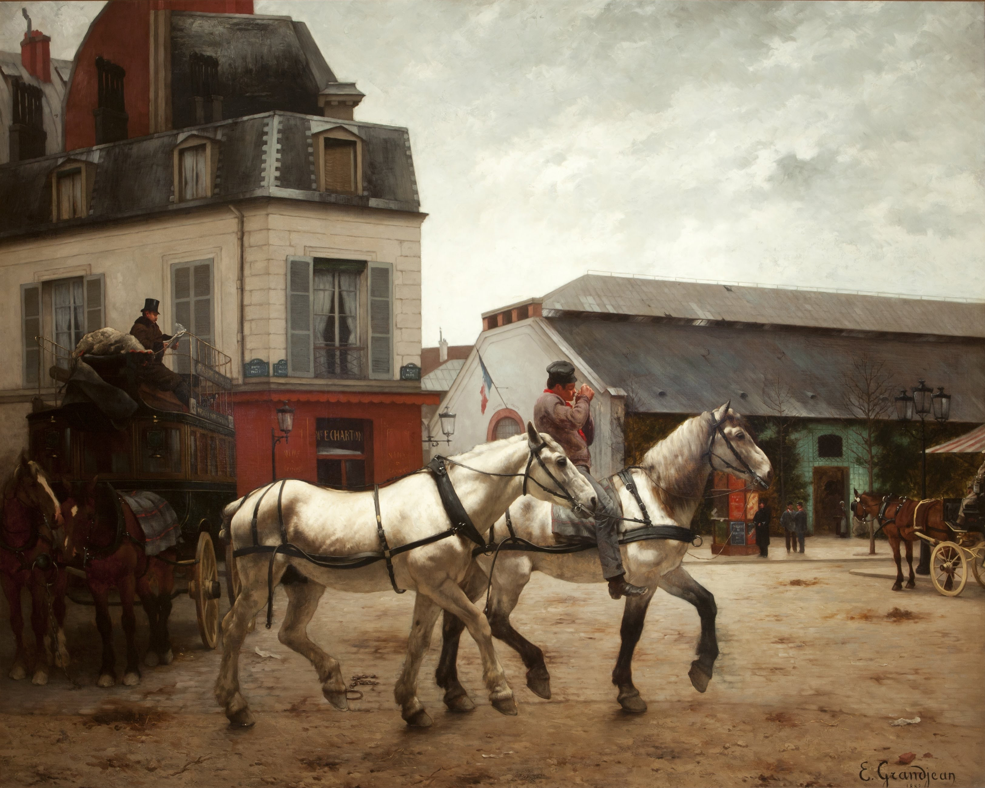 A Coach Stop on the Place de Passy. Edmond Georges Grandjean. Google Cultural Institute. 67 1/2 x 84 inches. Dixon Gallery and Garden